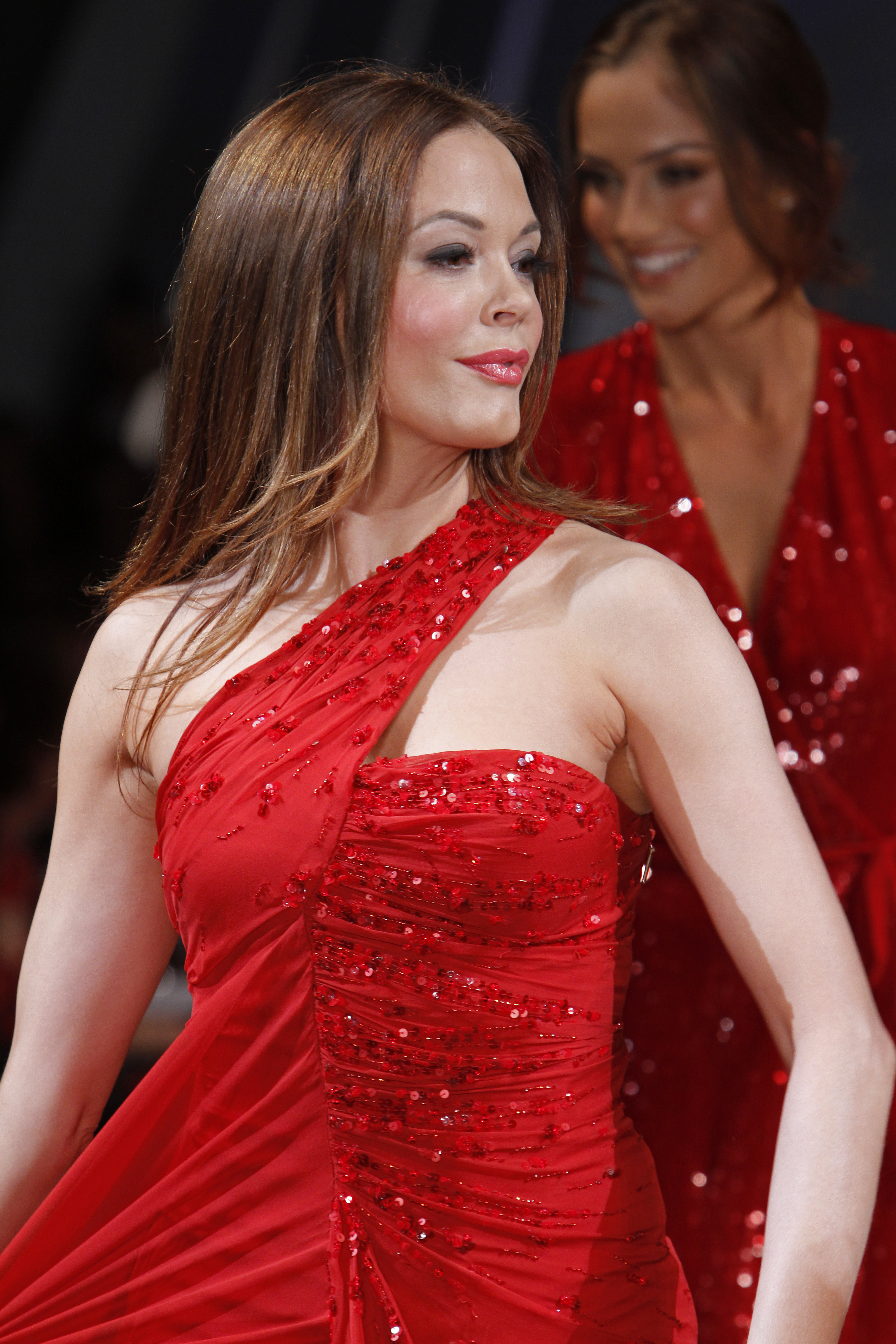 Photo by Dan&Corina Lecca